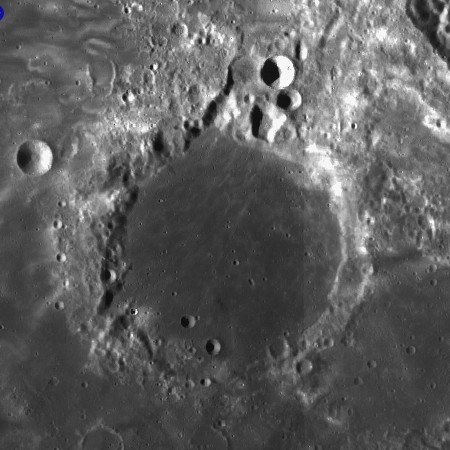 Goddard lunar crater LROC image